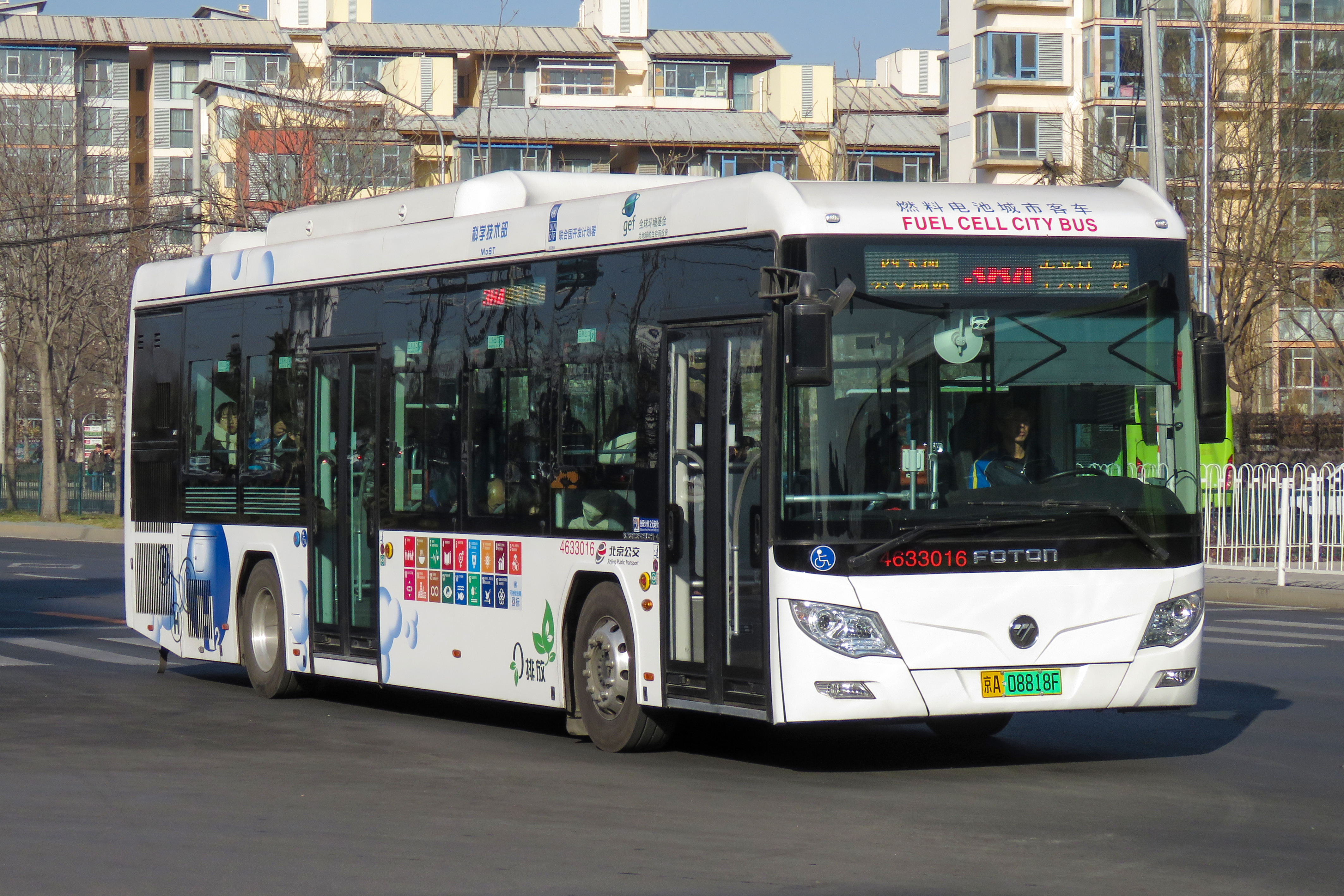 Spotting is thrill, shock, suspense, this route has the youthful as well as the elderly.